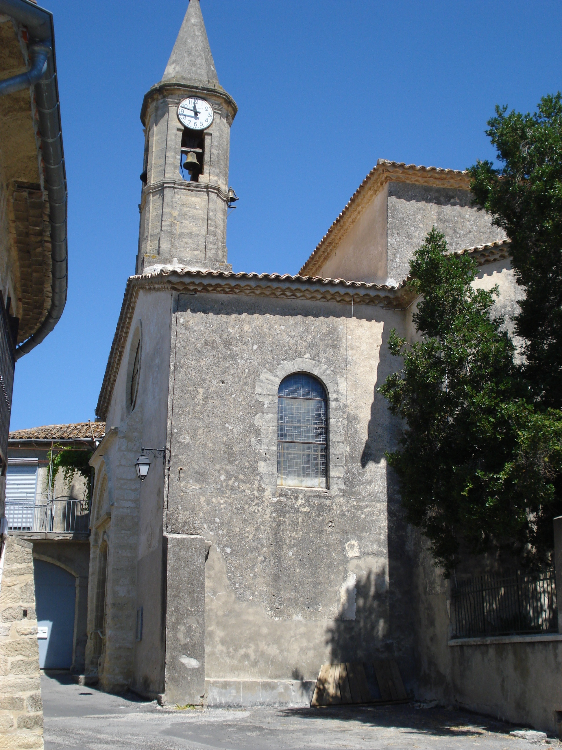 Souvignargues (Gard, Fr), church